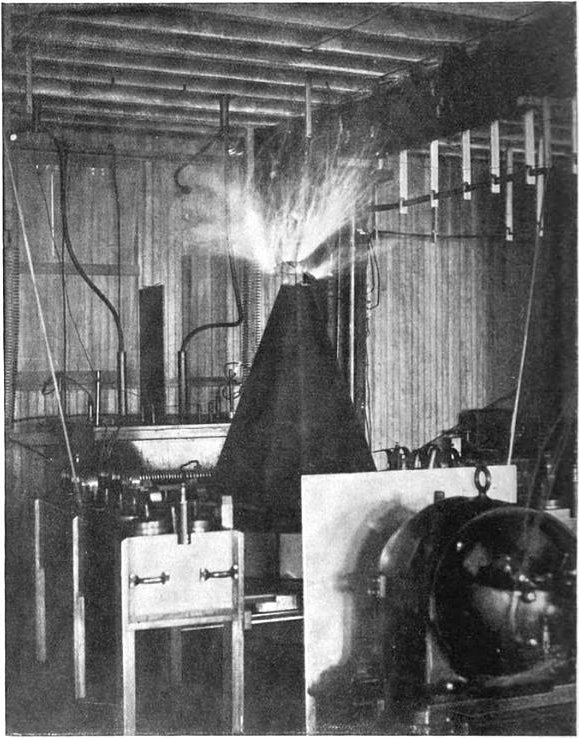 An early Tesla coil constructed by Nikola Tesla at his laboratory at 35 South Fifth Ave., New York around 1895. The voltage produced at the top terminal of the conical secondary coil may have been several hundred thousand volts, at a frequency around 1 MHz, producing a purple brush discharge, which is slightly exaggerated in this time exposure. At left are glass plate capacitors that formed the tuned circuit with the primary of the coil. Caption: TESLA COIL FOR ASCERTAINING AND DISCHARGING THE ELECTRICITY OF THE EARTH. THE STREAMERS AT TOP ARE OF PURPLE HUE, AND IN FORM RESEMBLE FILAMENTS OF SEAWEED, THE EFFECT OF MASS BEING CAUSED BY PROLONGED EXPOSURE OF FLASH-LIGHT NEGATIVE